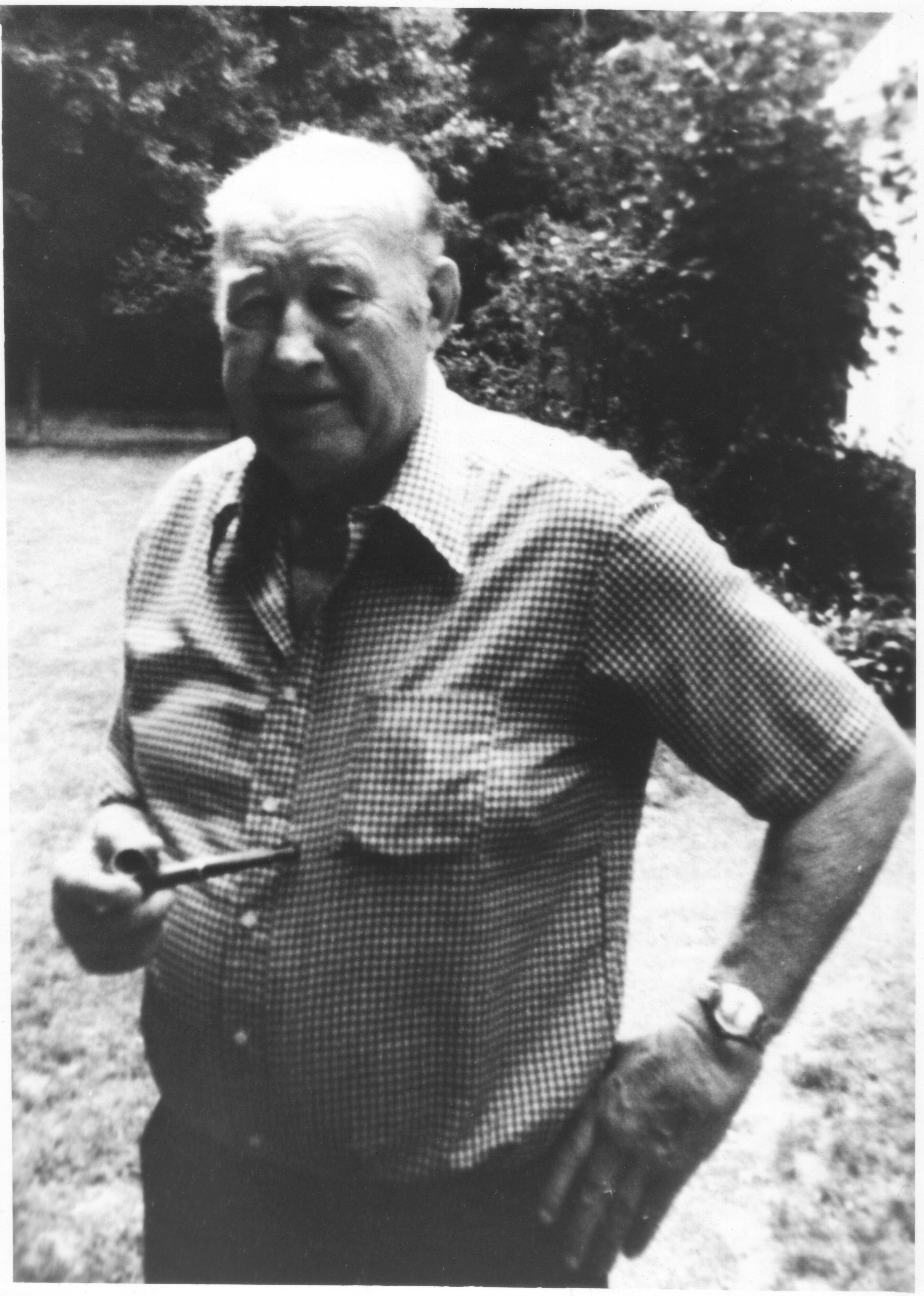 Juozas Žukauskas (Joseph Paul Zukauskas or "Jack Sharkey") (1902-1994) - famous Lithuanian American heavyweight boxing champion when he was 78 years old.